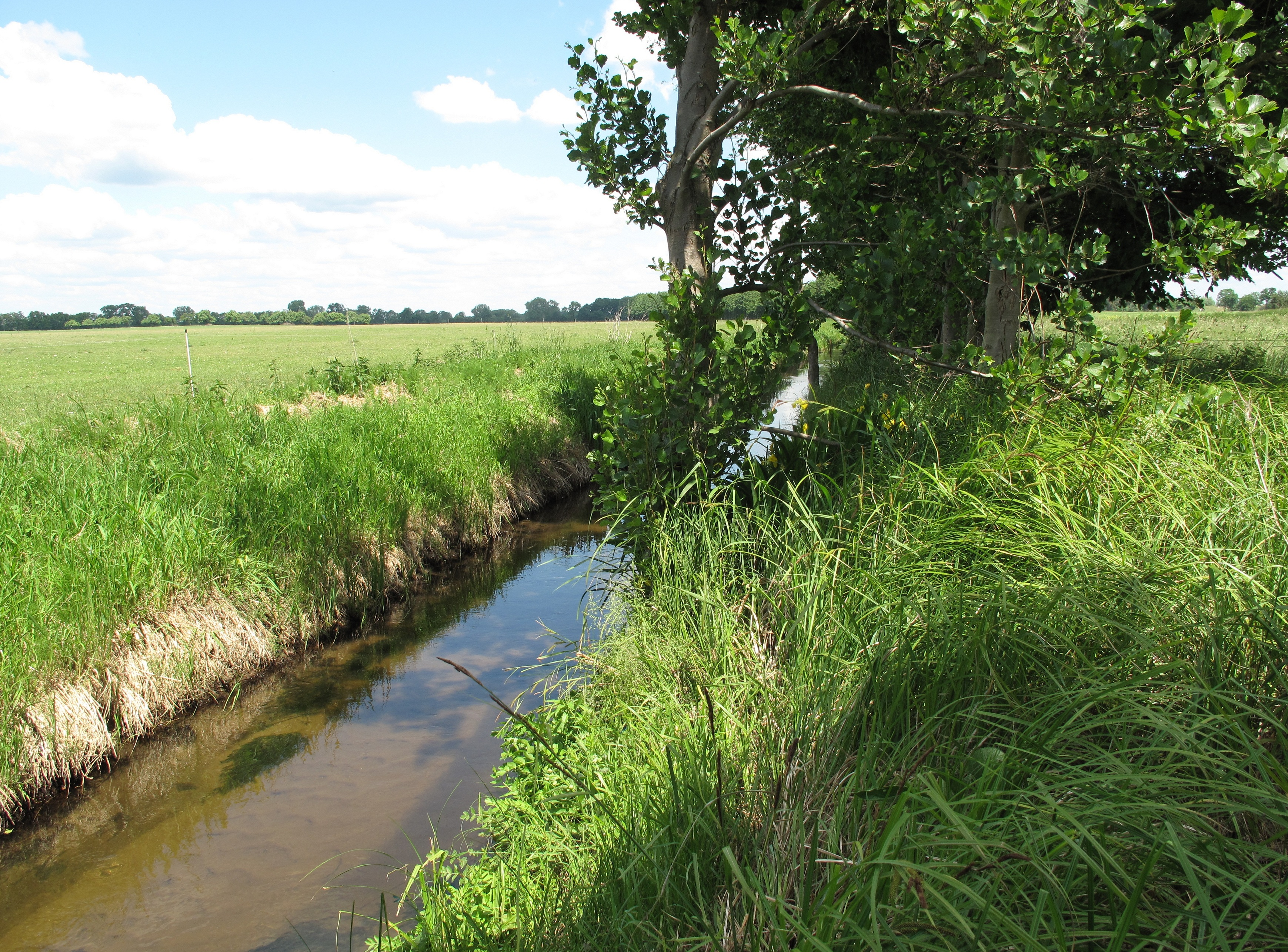 The Lichtenower Mühlenfließ (also called Zinndorfer Mühlenfließ, Zinndorfer Fließ, or Garzower Mühlenfließ) is a 22,8 kilometers long stream in the districts Märkisch-Oderland and Oder-Spree, Brandenburg, Germany. It is named after the village Lichtenow, part of the municipality Rüdersdorf.